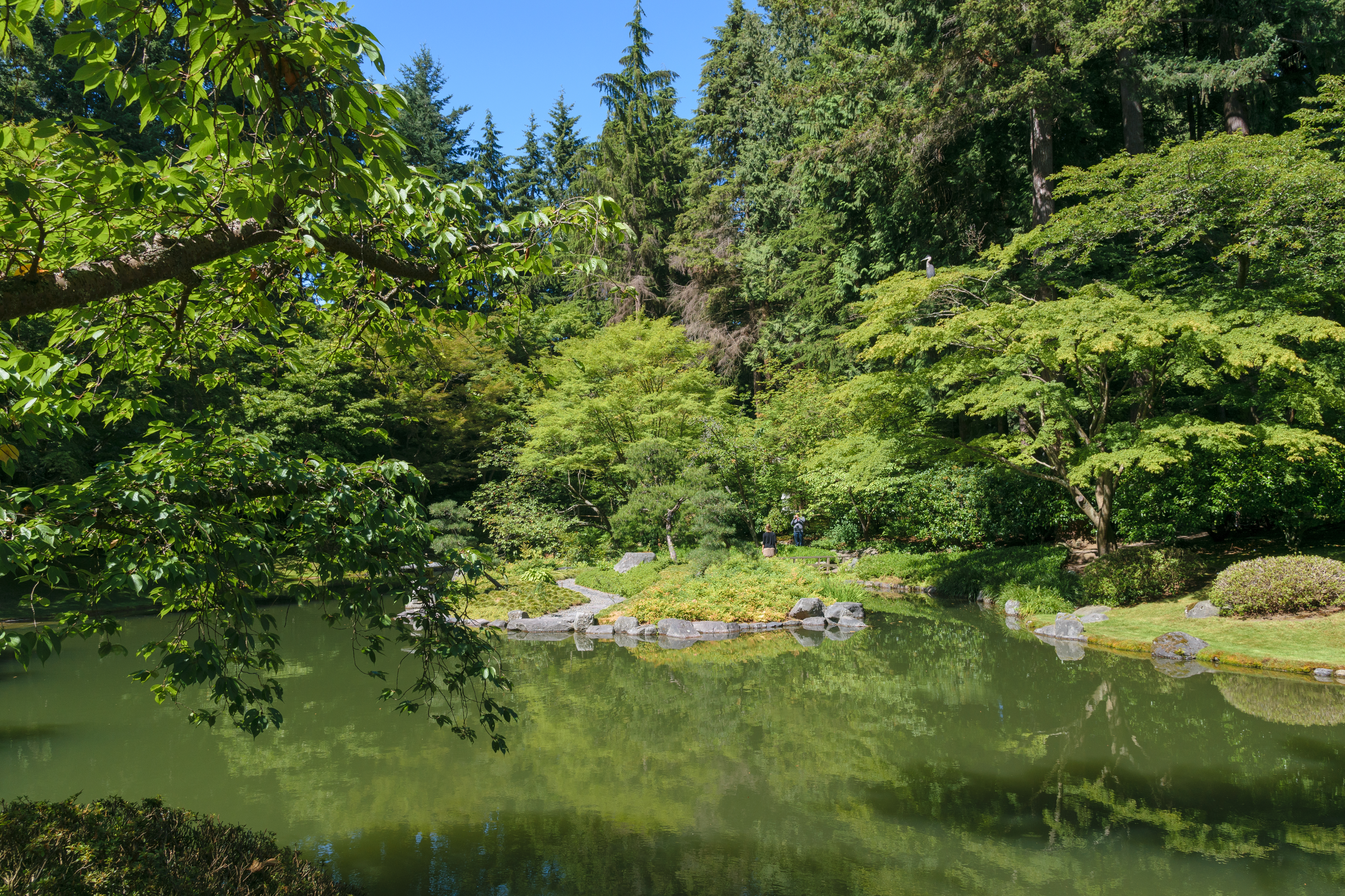 Nitobe Japanese Garden at the University of British Columbia, Canada